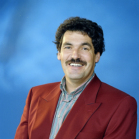 Peter Timofeeff